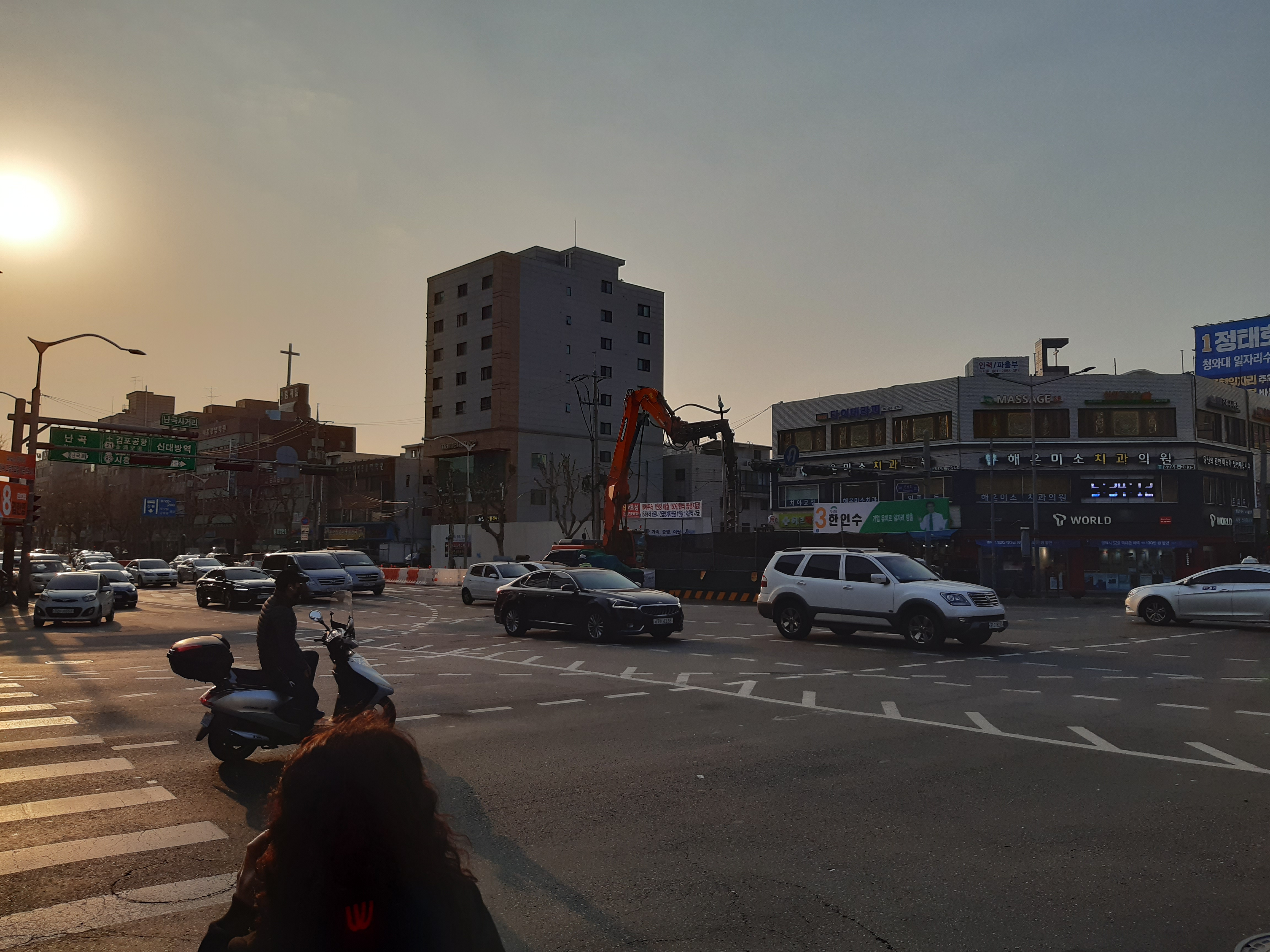 2020years April Waterworks transfer Under construction